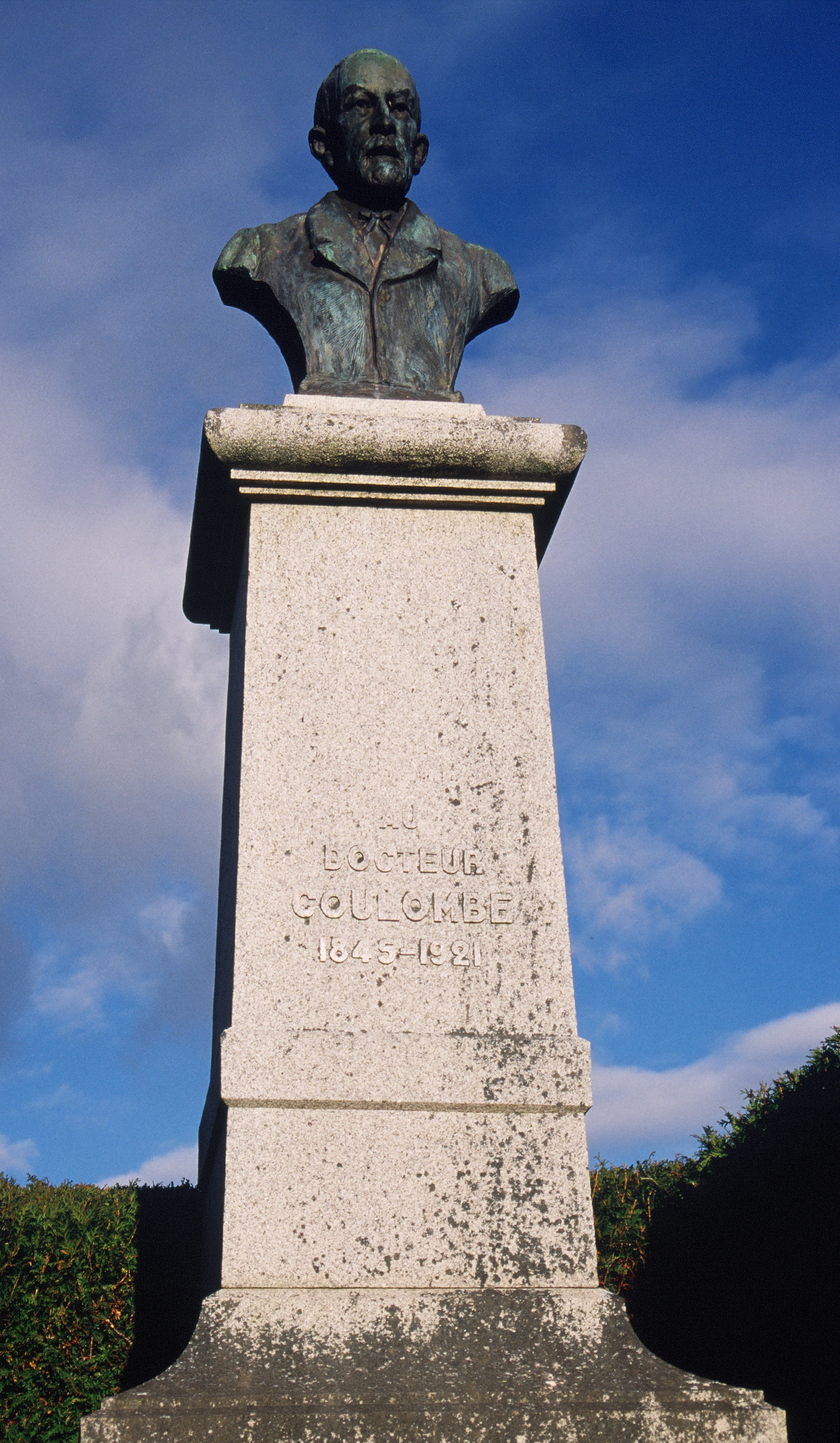 Stele about tribute to Doctor Coulombe, in Tinchebray.